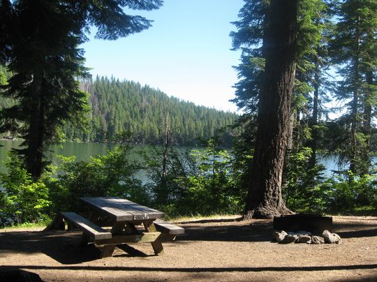 Blue Bay Campground at Suttle Lake in the Deschutes National Forest of Oregon